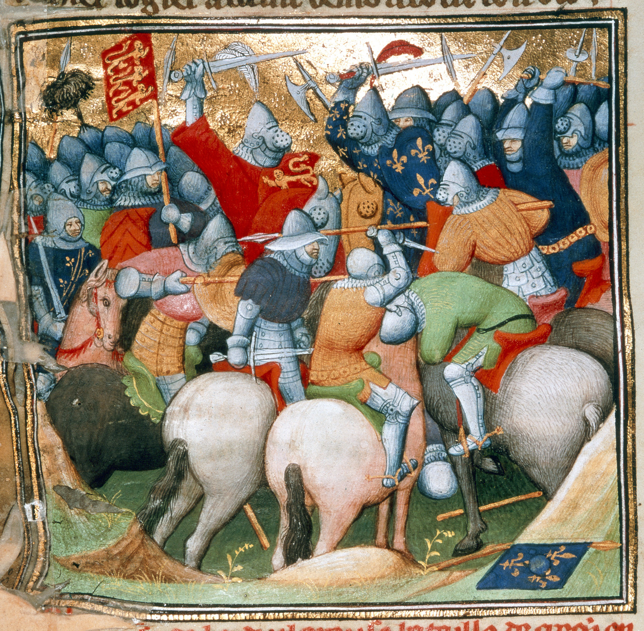 Battle of Crécy. (Miniature) The Battle of Crécy between the English and the French in 1346.